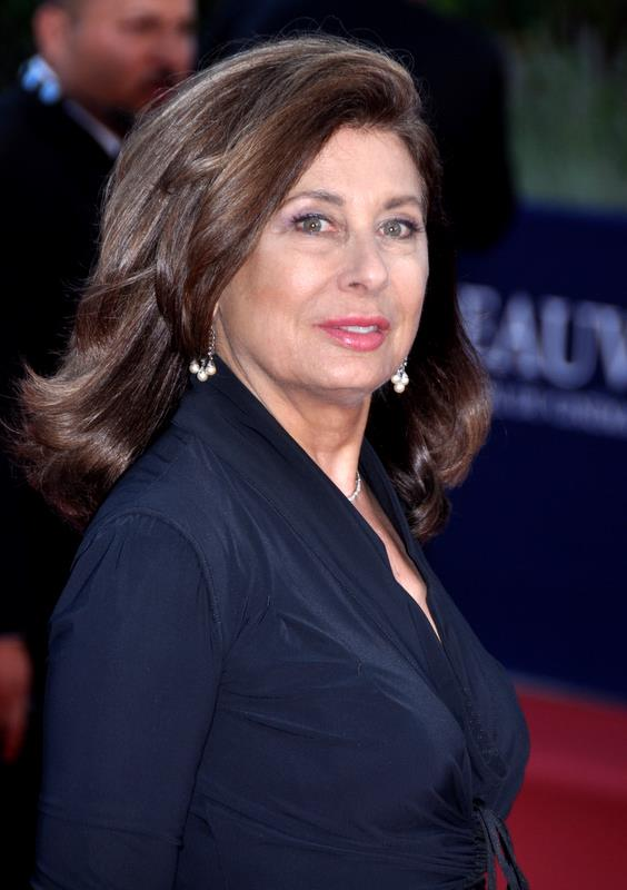 Paula Wagner at the Deauville Film Festival